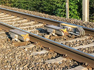 Train stop system Signum (left and middle) and ZUB-121 (right) in Otelfingen station